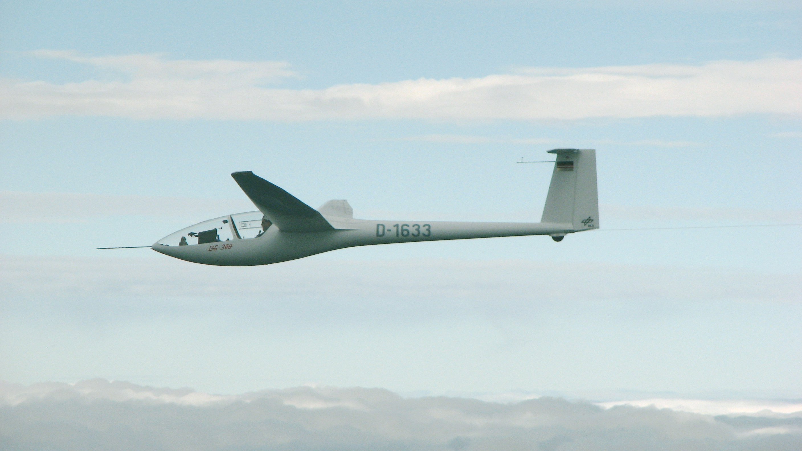 A modified DG 300 used by the Deutsches Zentrum für Luft- und Raumfahrt (DLR)